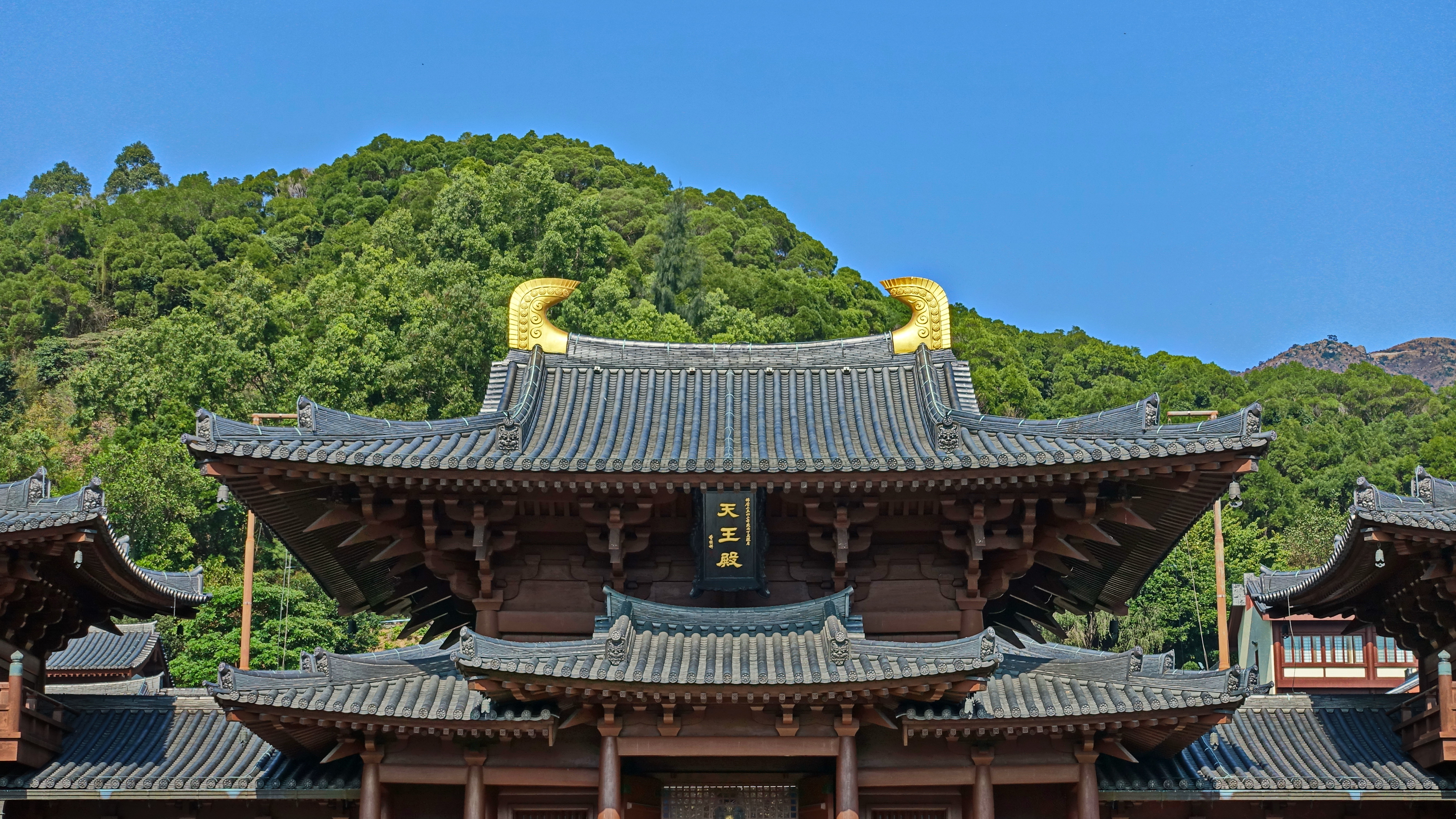 Hall of Celestial Kings, Chi Lin Nunnery, Diamond Hill, Kowloon, Hong Kong.